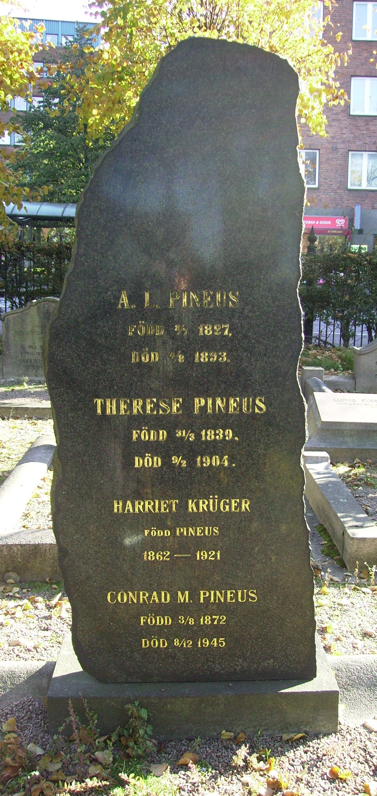 Picture of Conrad Pineus' grave at the Jewish cemetary in Göteborg